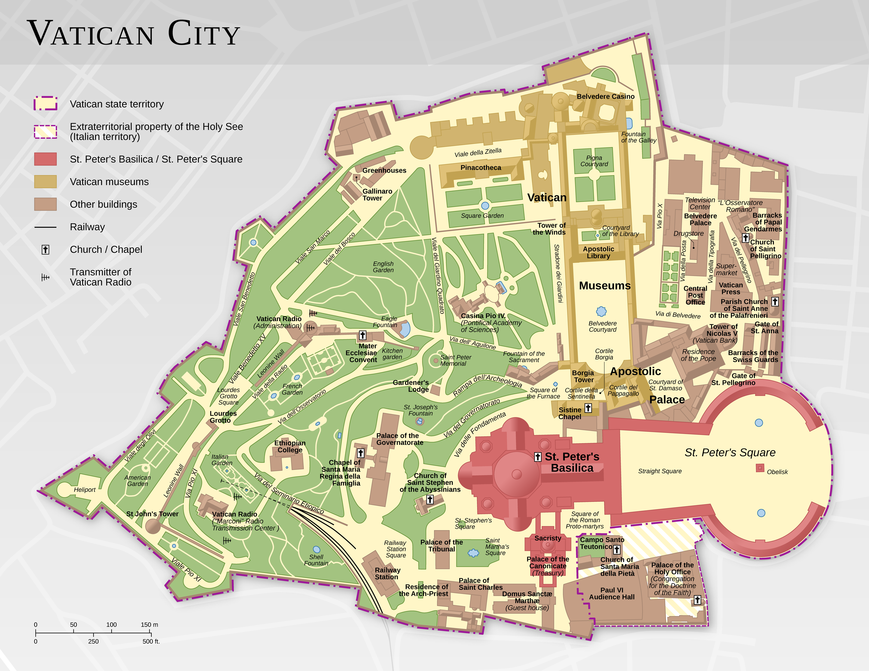 Map of the Vatican City (English version)